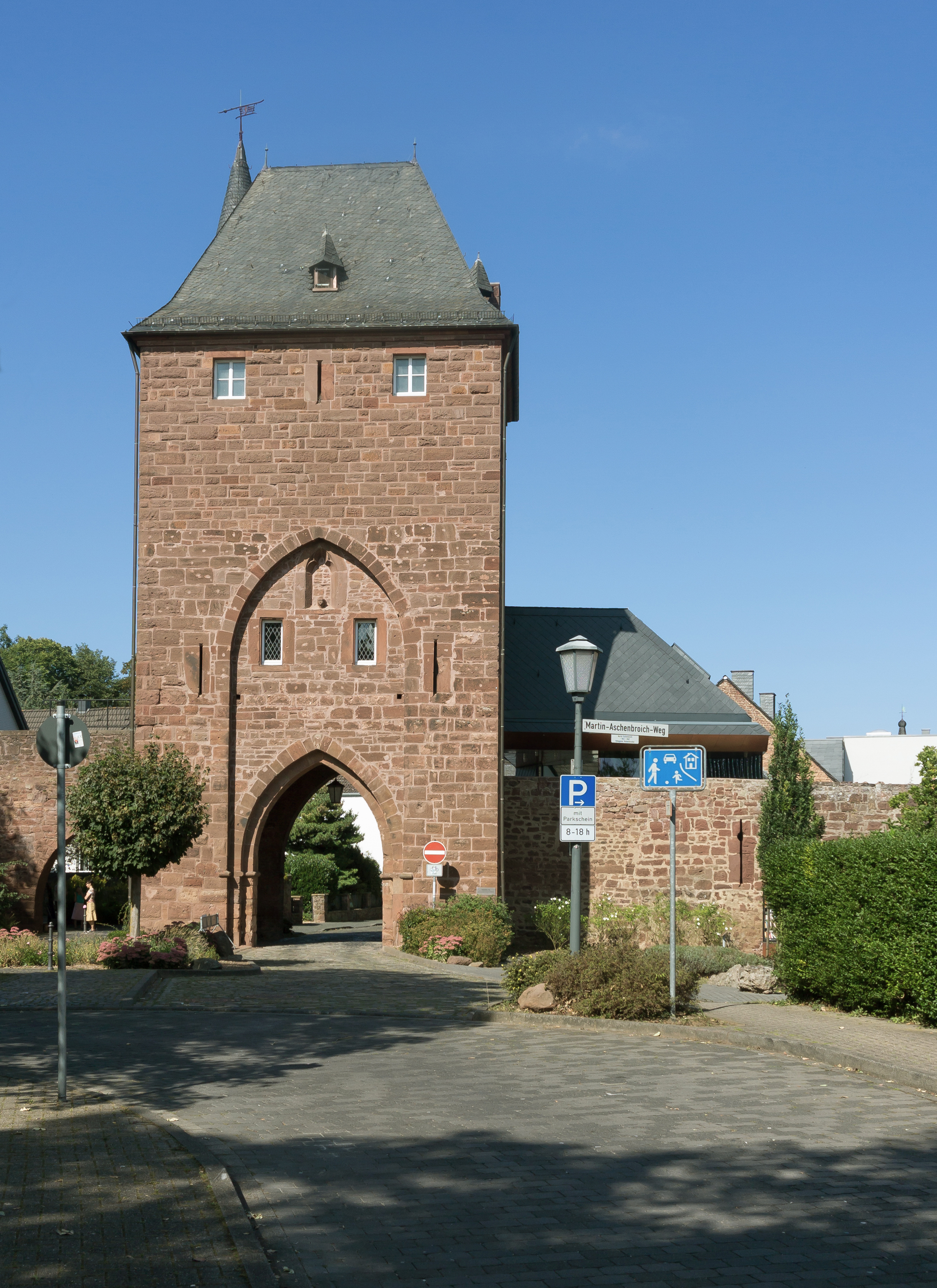 Nideggen, towngate: das Zülpicher Tor